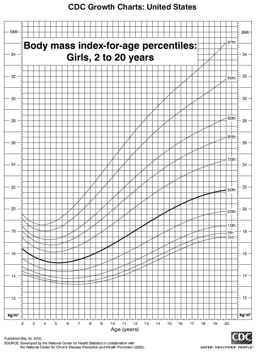 CDC Growth Charts: United States, Boys 2 - 20 years old.